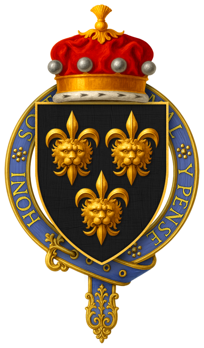 Garter-encircled coat of arms of Bertram Gurdon, 2nd Baron Cranworth, KG, as displayed on his Order of the Garter stall plate in St. George's Chapel, Windsor Castle.